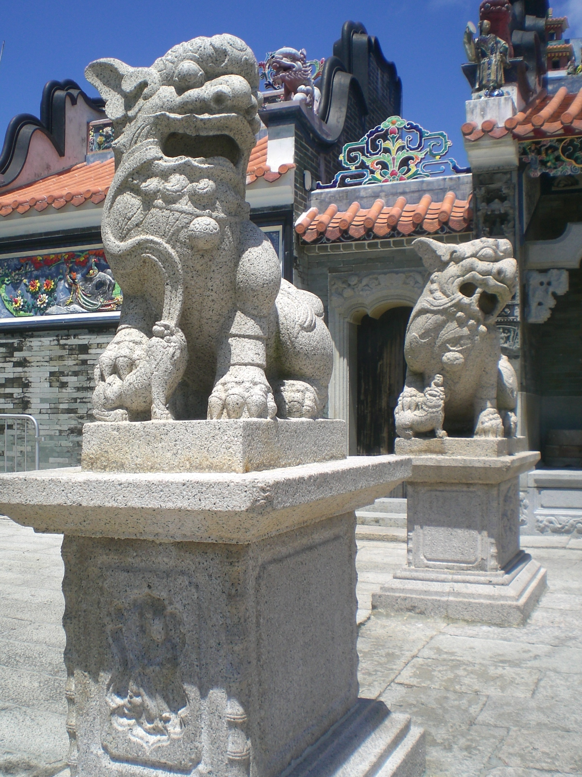 長洲玉虛宮，又名zh:長洲北帝廟，正門前的zh:球場及其它設施